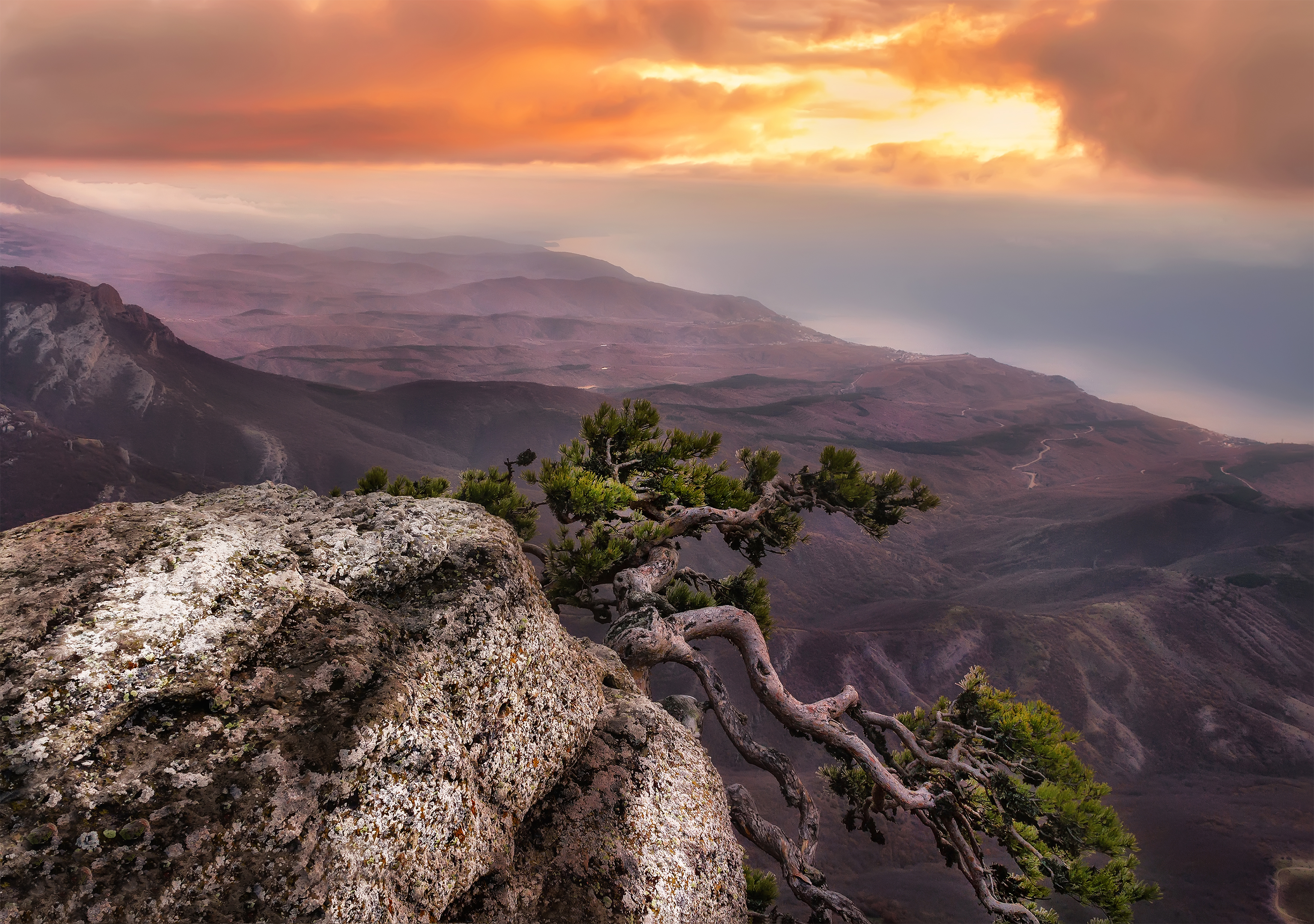 Dawn on South Demerdji, Alushta, Crimea, Ukraine